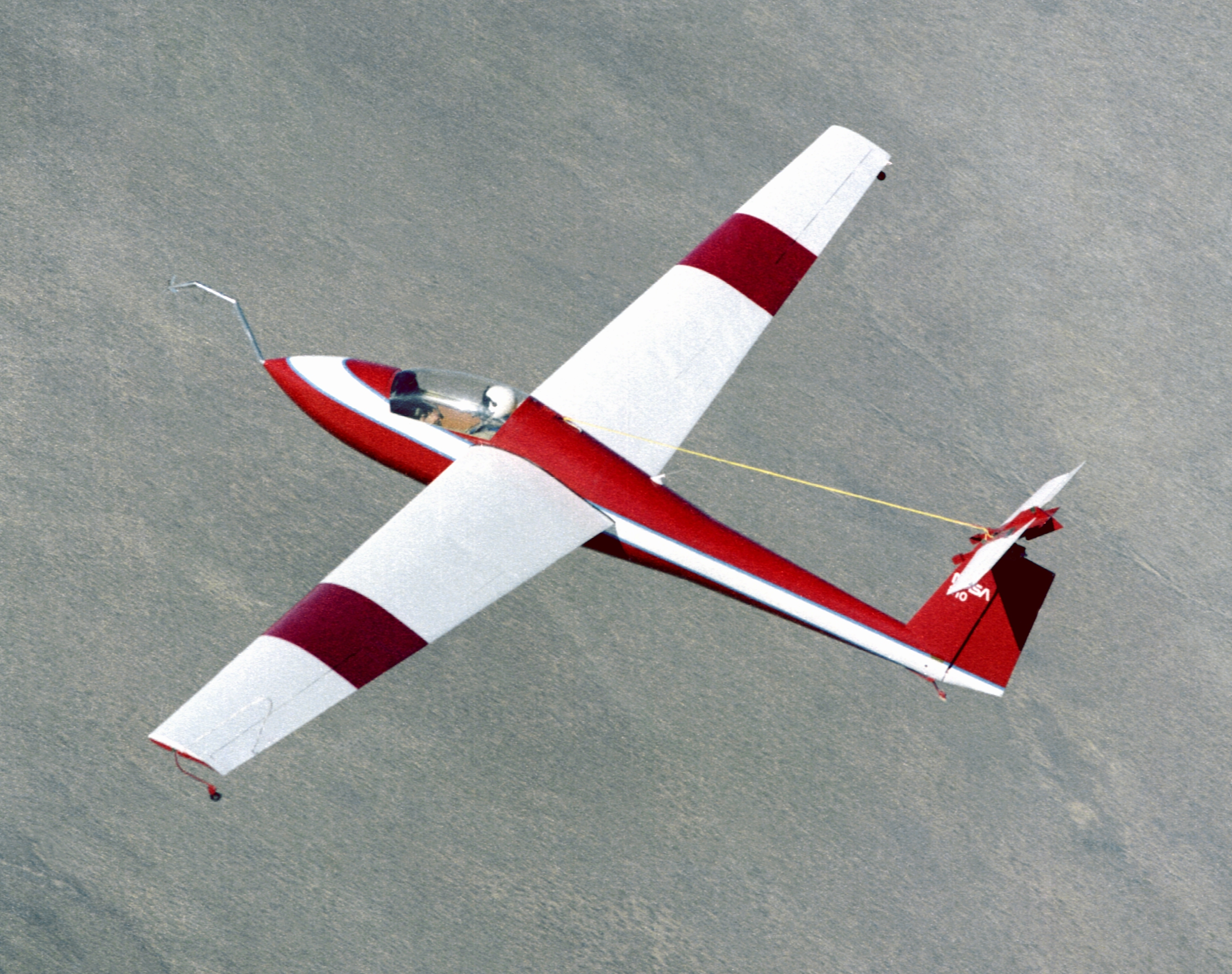 A Schweizer 1-36 sailplane, used by NASA for a series of deep-stall research flights in the early 1980s, is shown here in flight over the Mojave Desert in California.